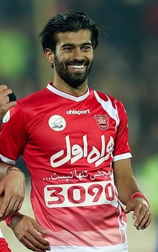 Ramin Rezaeian playing for Persepolis against Gostaresh, Azadi Stadium, Tehran